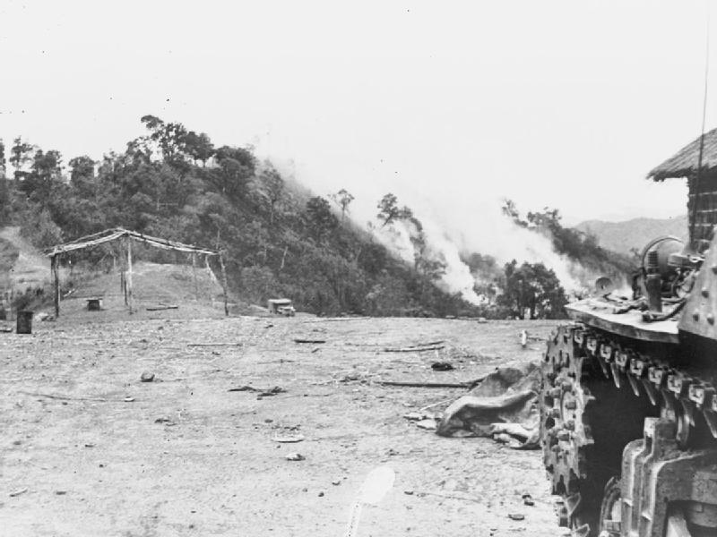 THE WAR IN THE FAR EAST: THE BURMA CAMPAIGN 1941-1945, The Battle of Imphal-Kohima March - July 1944: A Japanese position under fire on the Tamu Road.